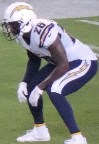 Arizona Cardinals wide receiver Larry Fitzgerald lines up in formation, covered by San Diego Chargers cornerback Brandon Flowers, in a game in 2014.